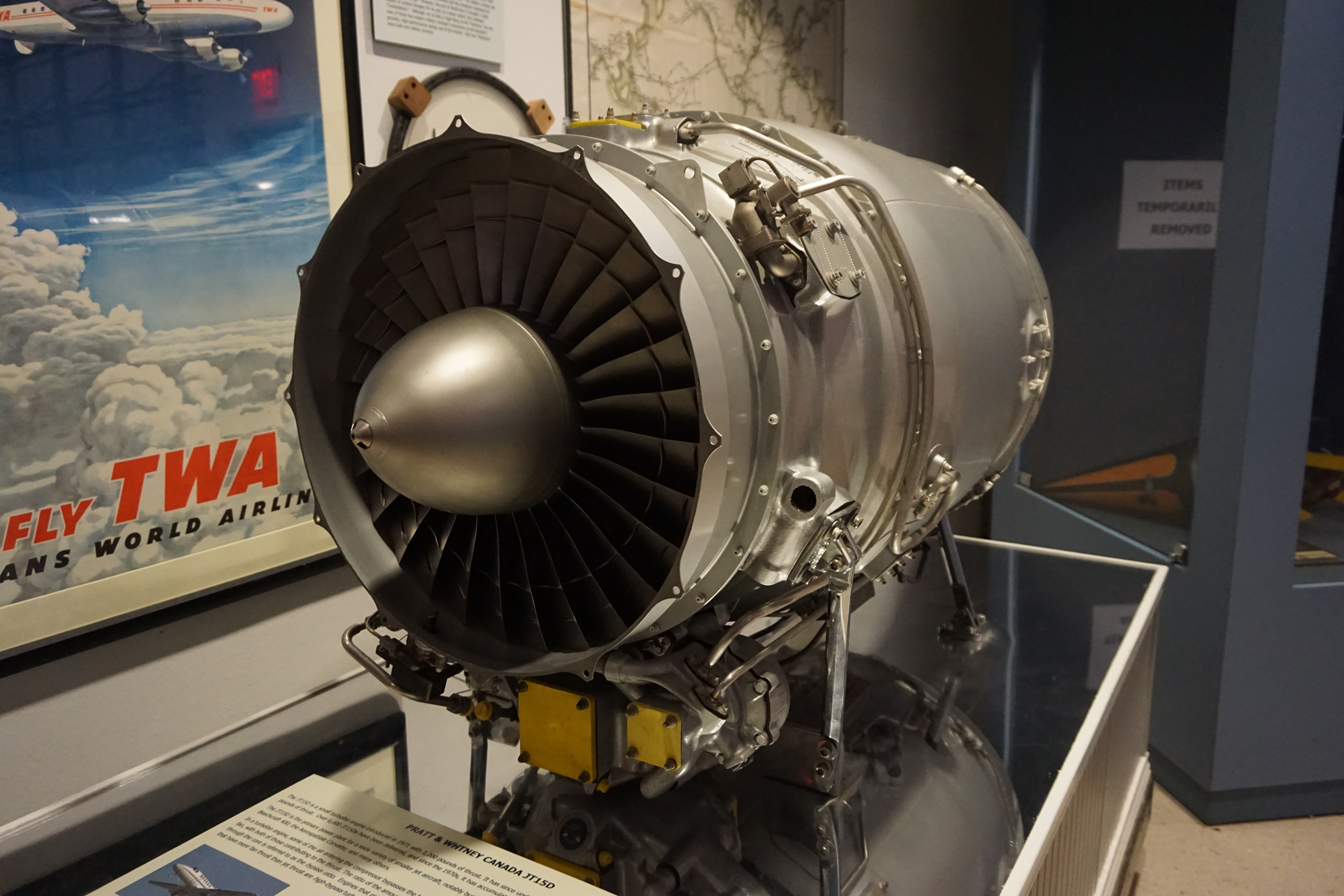 A Pratt & Whitney Canada JT15D jet engine on display at the Frontiers of Flight Museum at Dallas Love Field in Dallas, Texas (United States).